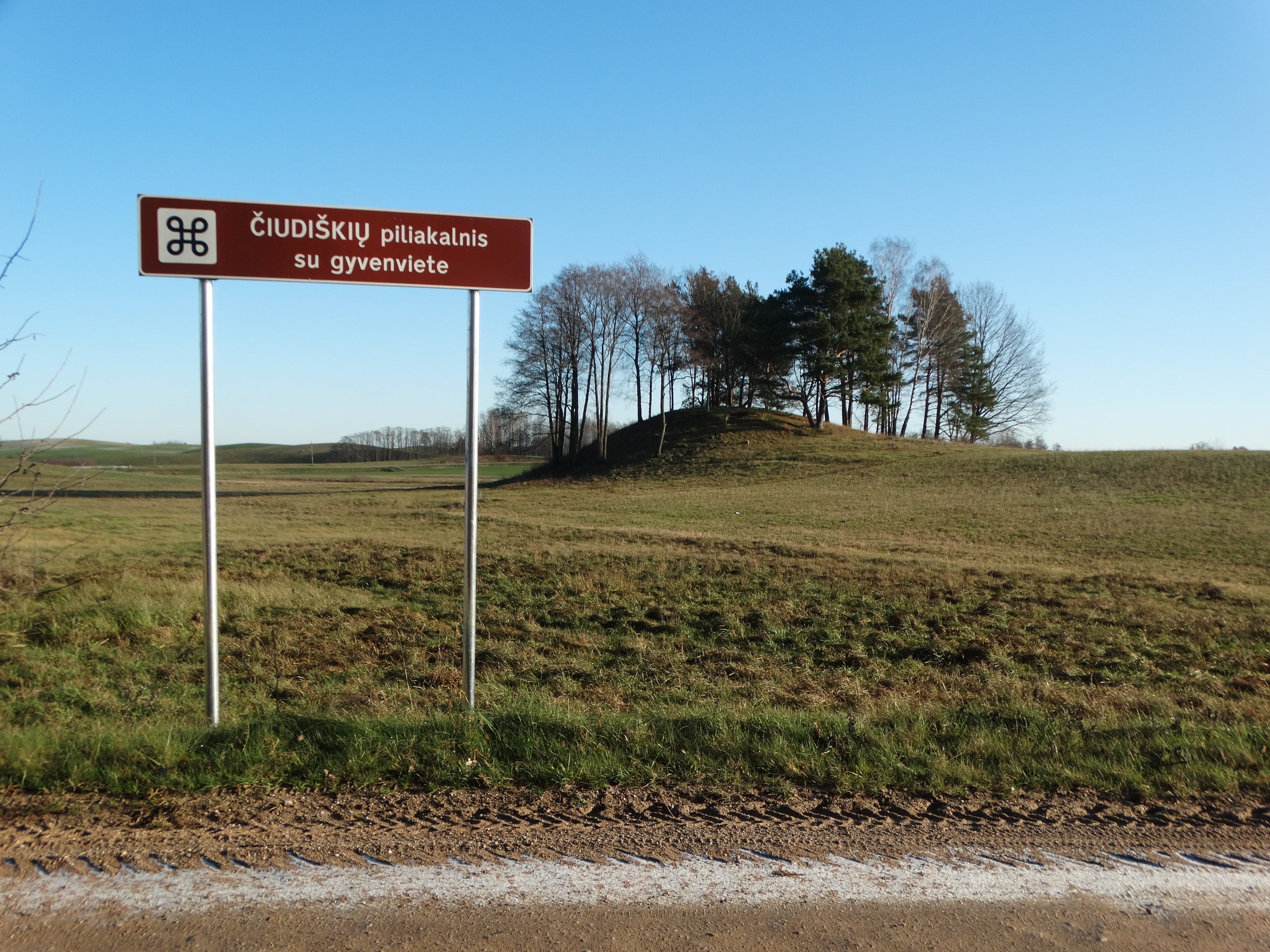 Hillfort, Čiudiškiai, Prienai district, Lithuania